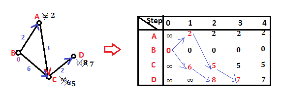 Bước 4